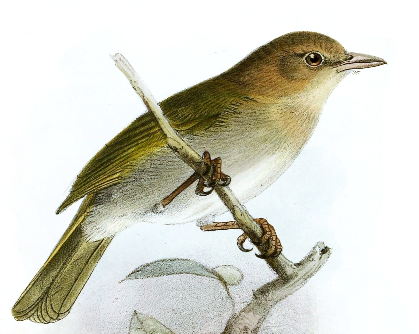 « Hylophilus brunneiceps » = Hylophilus brunneiceps (Brown-headed greenlet)